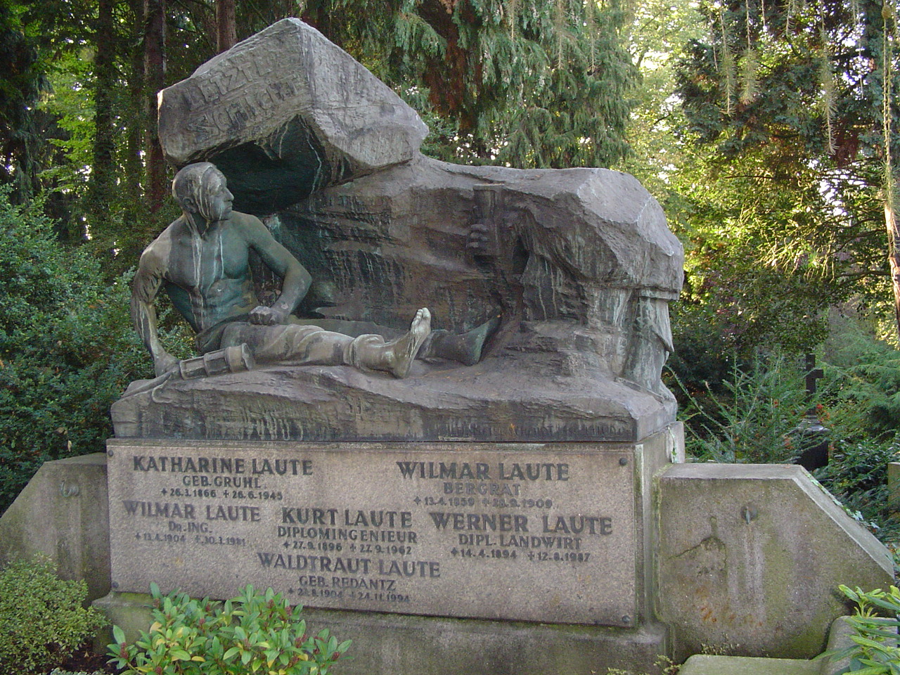 Grave of the family Laute, Poppelsdorfer Friedhof, Bonn, Germany. Sculpture made in 1911 by Joseph Hammerschmidt (1873-1926).